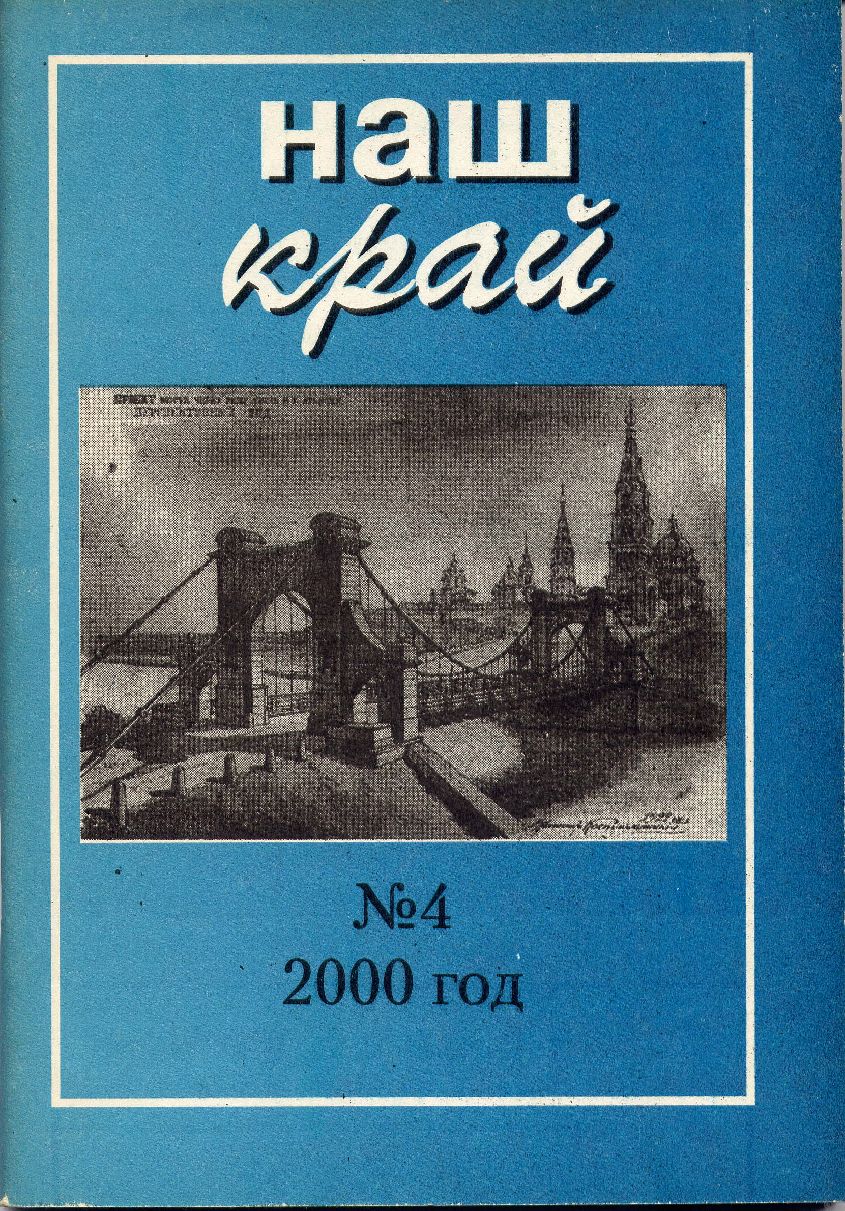 "Our land" magazine, Yaransk, Kirov oblast, Russia